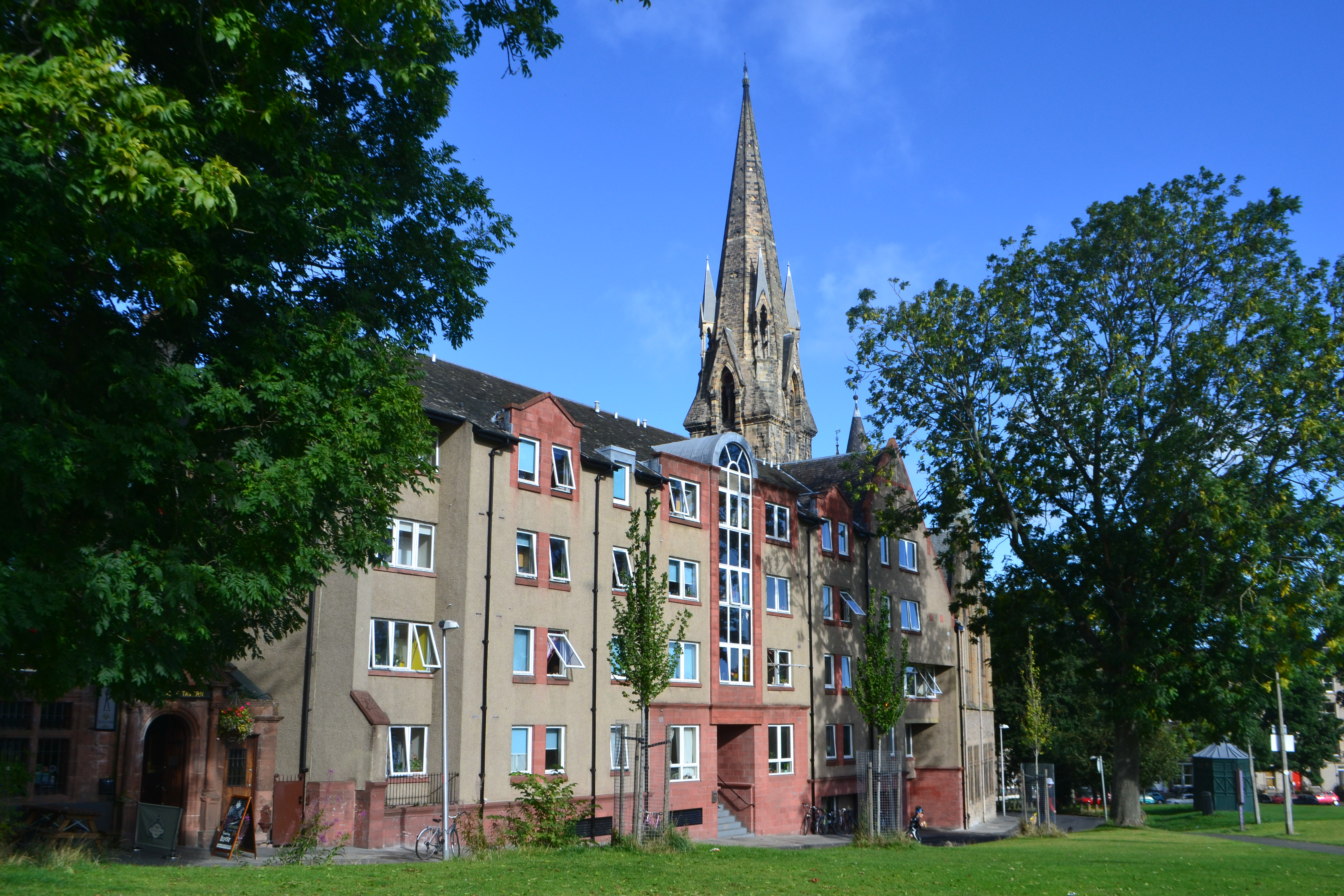 Photograph showing 34 Wright's House with view of adjacent church spire. This photograph was taken from the Bruntsfield Links.